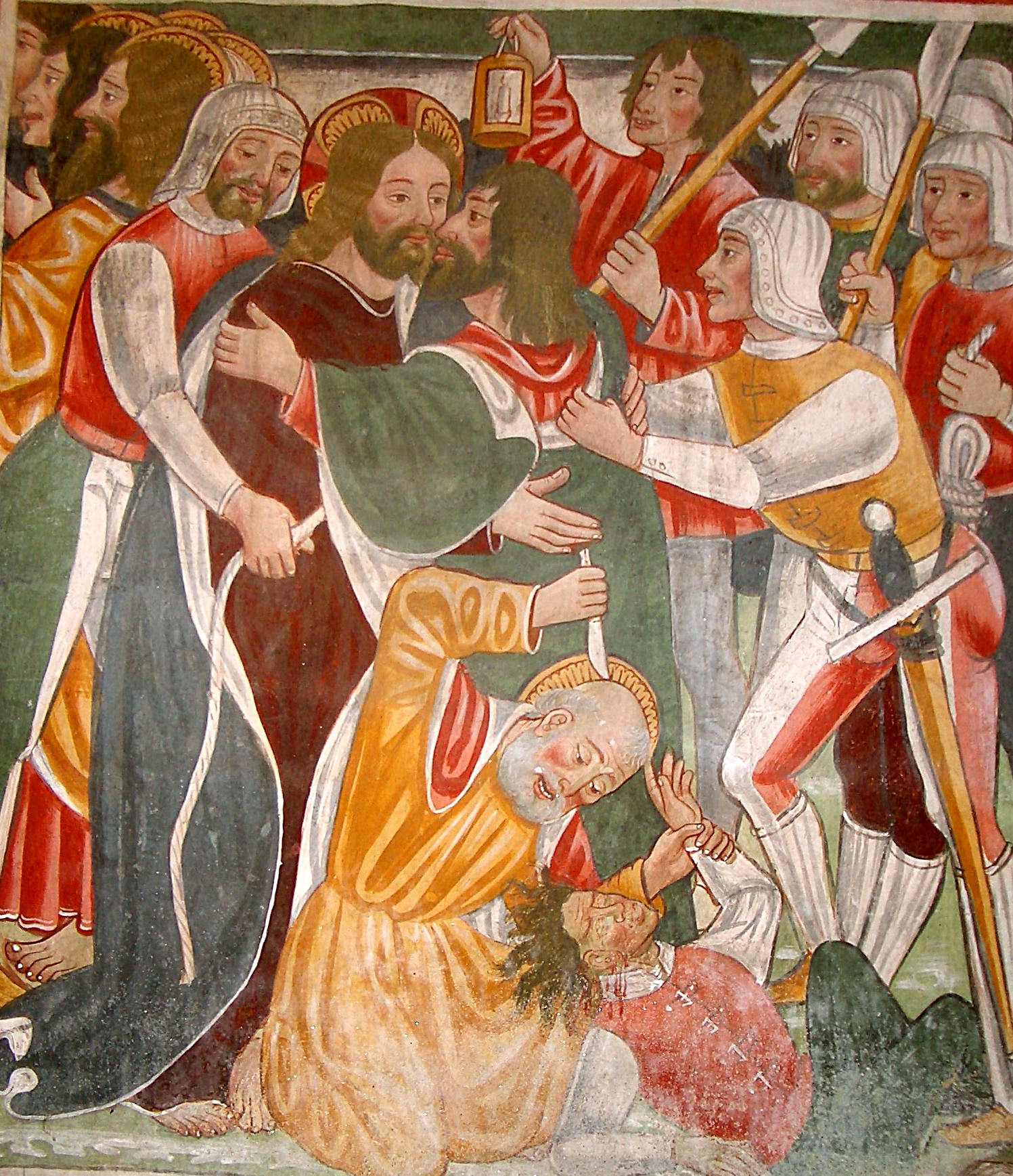 Momo (NO), oratory of the Holy Trinity, Kiss of Judas, Giovanni and Francesco Cagnola (?), end of XV century - beginning of XVI century